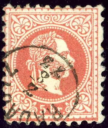 Austrian KK 5 kreuzer stamp, cancelled at RADAUTZ (Bukovina, Romania) in 1873